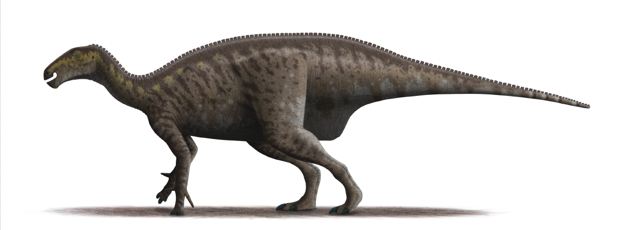 Mantellisaurus atherfieldensis, • Based proportionally on a skeletal drawing by Gregory Paul (2008). • This was for a long time classified Iguanodon atherfieldensis. In 2006 Gregory Paul reassigned it to a genus, Mantellisaurus. • Paul suggested that Mantellisaurus was primarily Bipedal, based on its limb and body proportions, the one shown here is resting on all fours. [1] • The colours and/or patterns, as with nearly all reconstructions of prehistoric creatures, are speculative. NOTE: I often update my images. If you want to have any of my images on a website, please (if possible) don’t host/save it to the website server. I’d prefer it if the image's Wikimedia URL is used. This means that if I update an image, it will be updated on the site as well. Thanks. References ↑ Paul, Gregory S. (2008). "A revised taxonomy of the iguanodont dinosaur genera and species". Cretaceous Research 29 (2): 192–216.